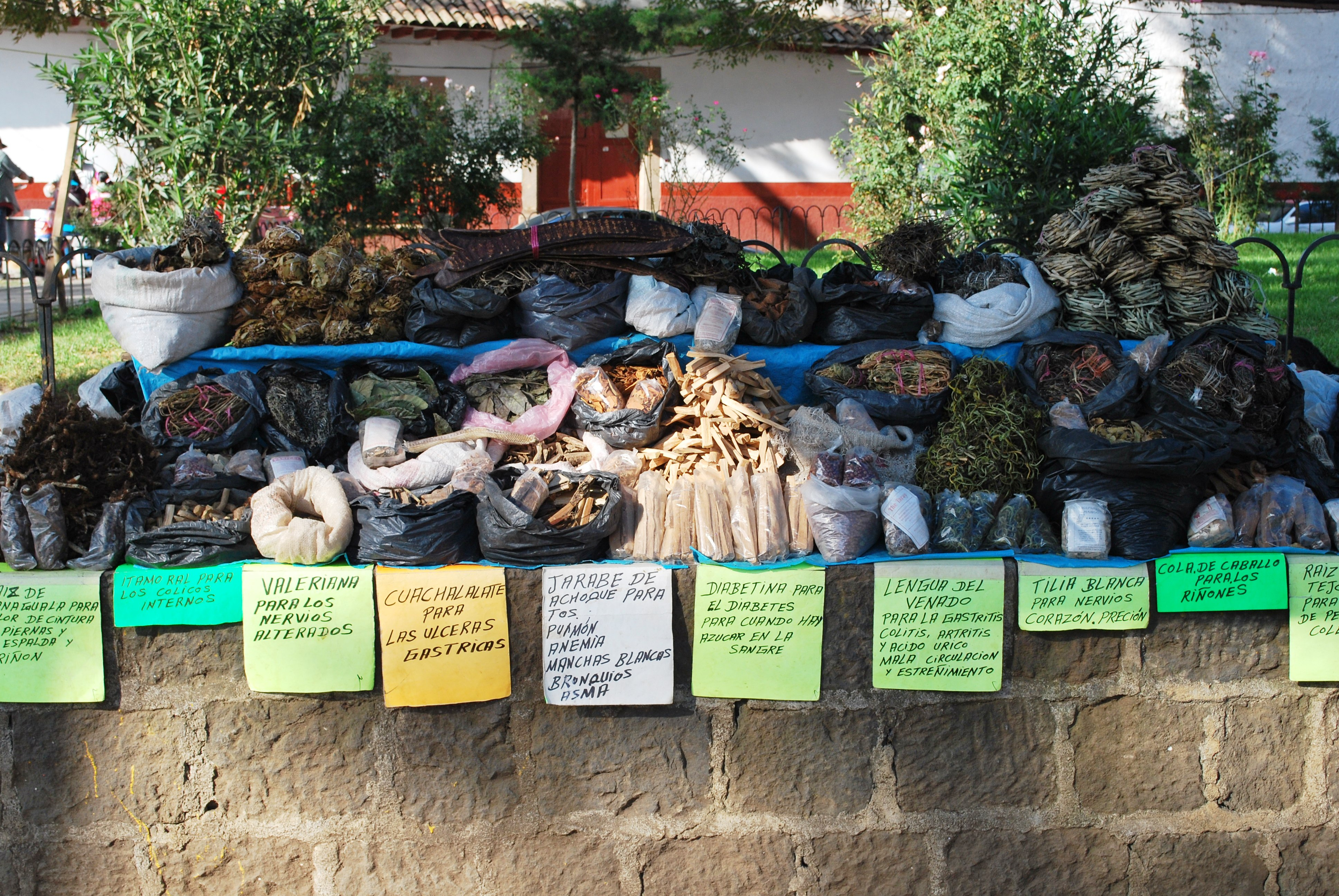 Street vendor selling herbal remedies in Patzcuaro, Michoacan